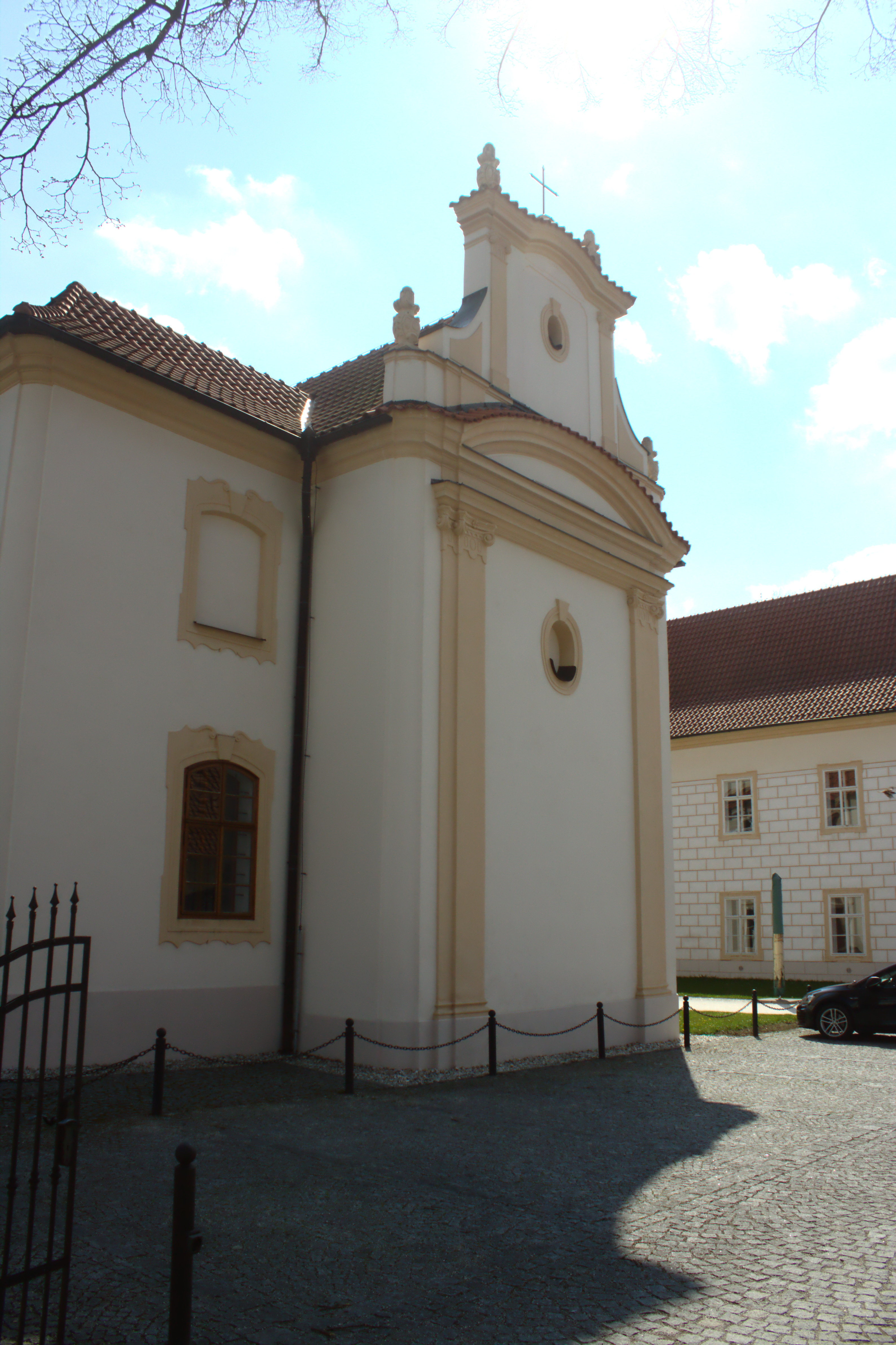 A chapel of the Hrádek Castle, Plzen Region, CZ